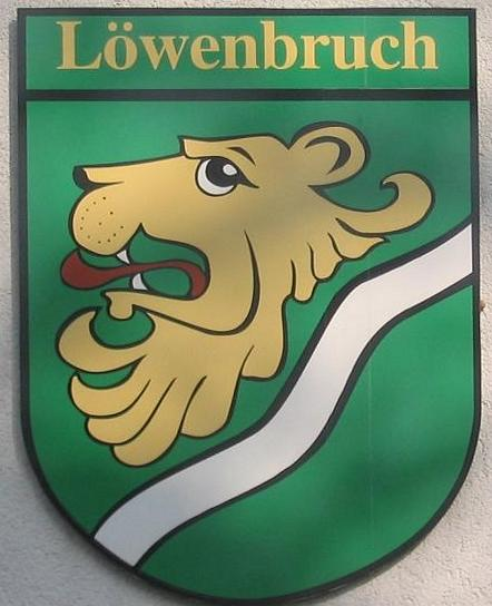 Coats of arms from Löwenbruch at the fire station. The village Löwenbruch is a part of the town Ludwigsfelde in the district Teltow-Fläming, state Brandenburg, Germany.